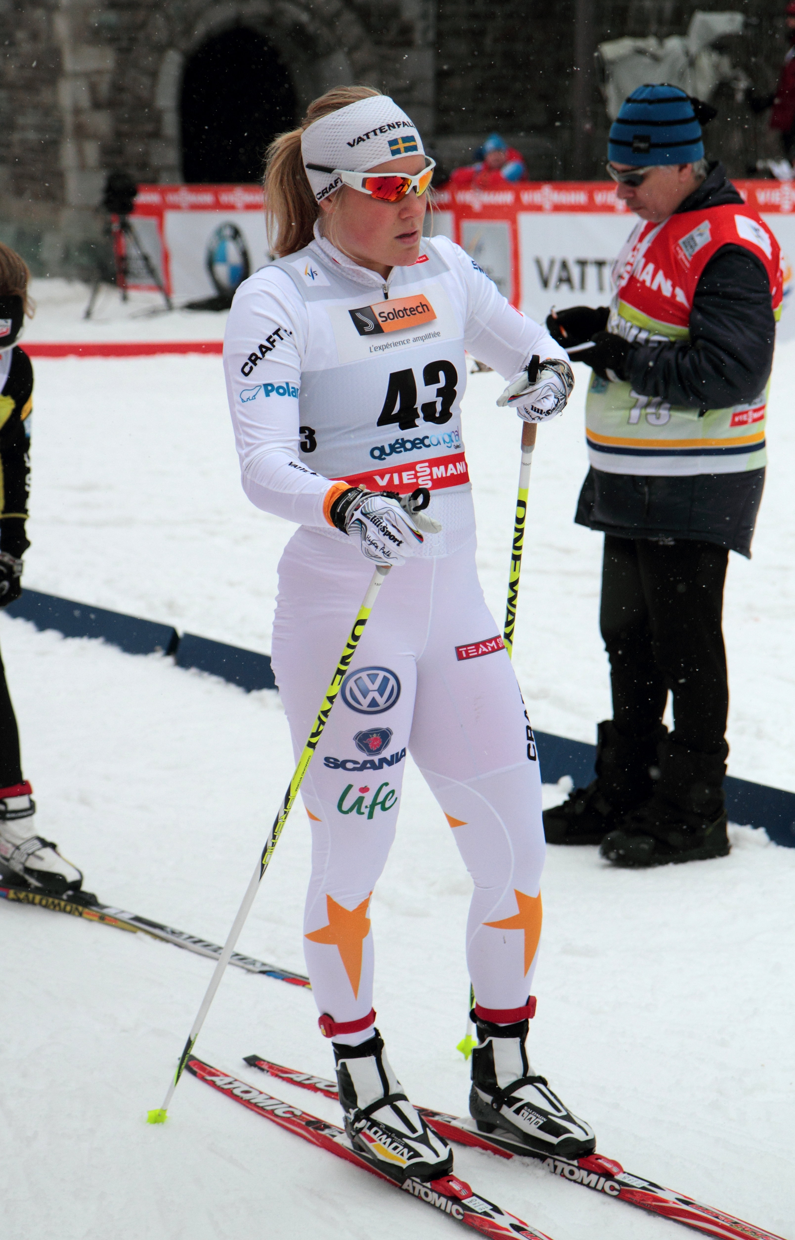 Hanna Falk, FIS Cross-Country World Cup 2012, Quebec, Canada.